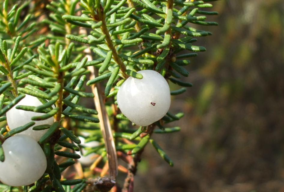 Fruits of Corema album